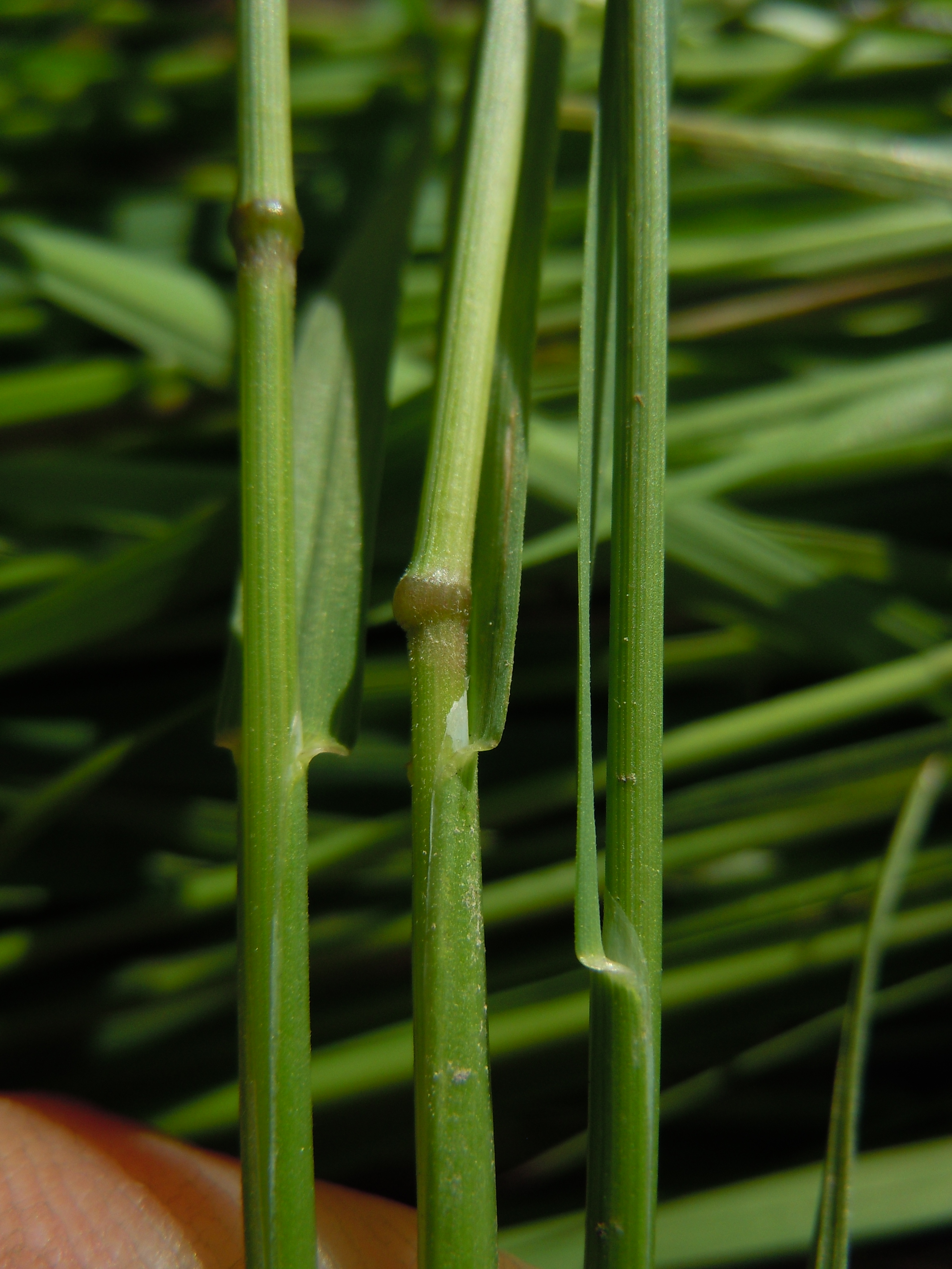 Poa palustris has broad leaves that are concentrated on the stem rather than basally, and the double-midrib characteristic of Poa can be somewhat obscured by the broad blade.